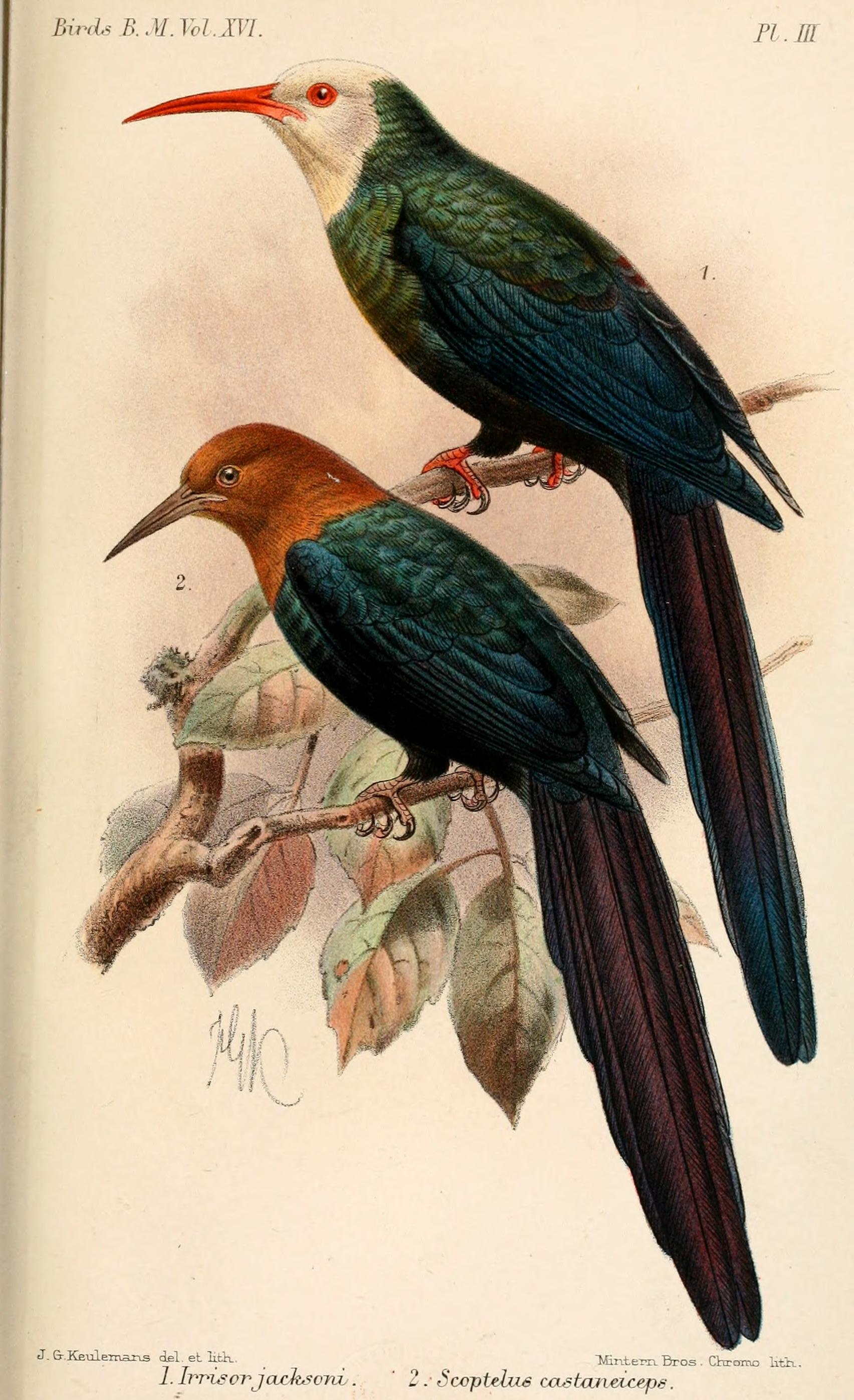 1: Irrisor jacksoni (now Phoeniculus bollei) 2: Scoptelus castaneiceps (now Phoeniculus castaneiceps)